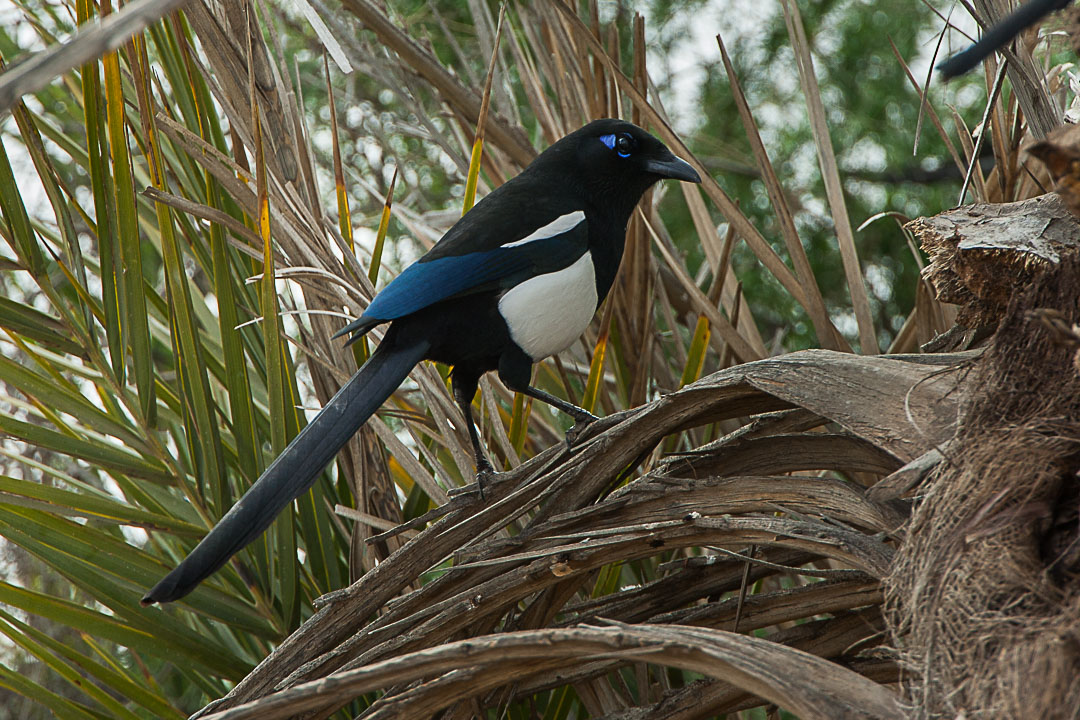 I uploaded this image of some years ago, because the Maghreb Magpie was split recently from the Eurasian Magpie. This is a new species to be added to my album "One Bird Species-One Photo "